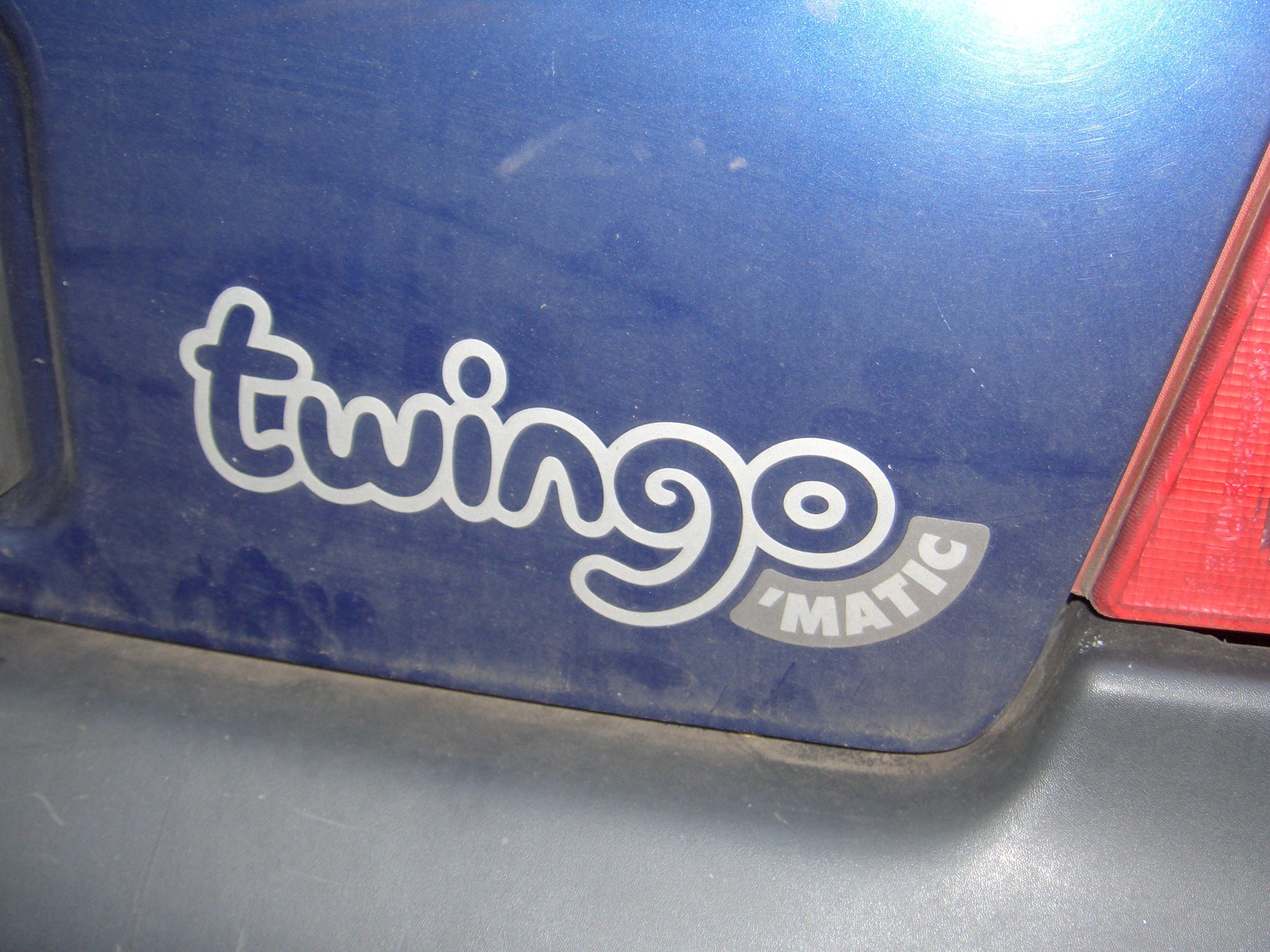 Renault Twingo (GenI 1993-2007) ´MATIC (automatic gearbox option), boot lid right